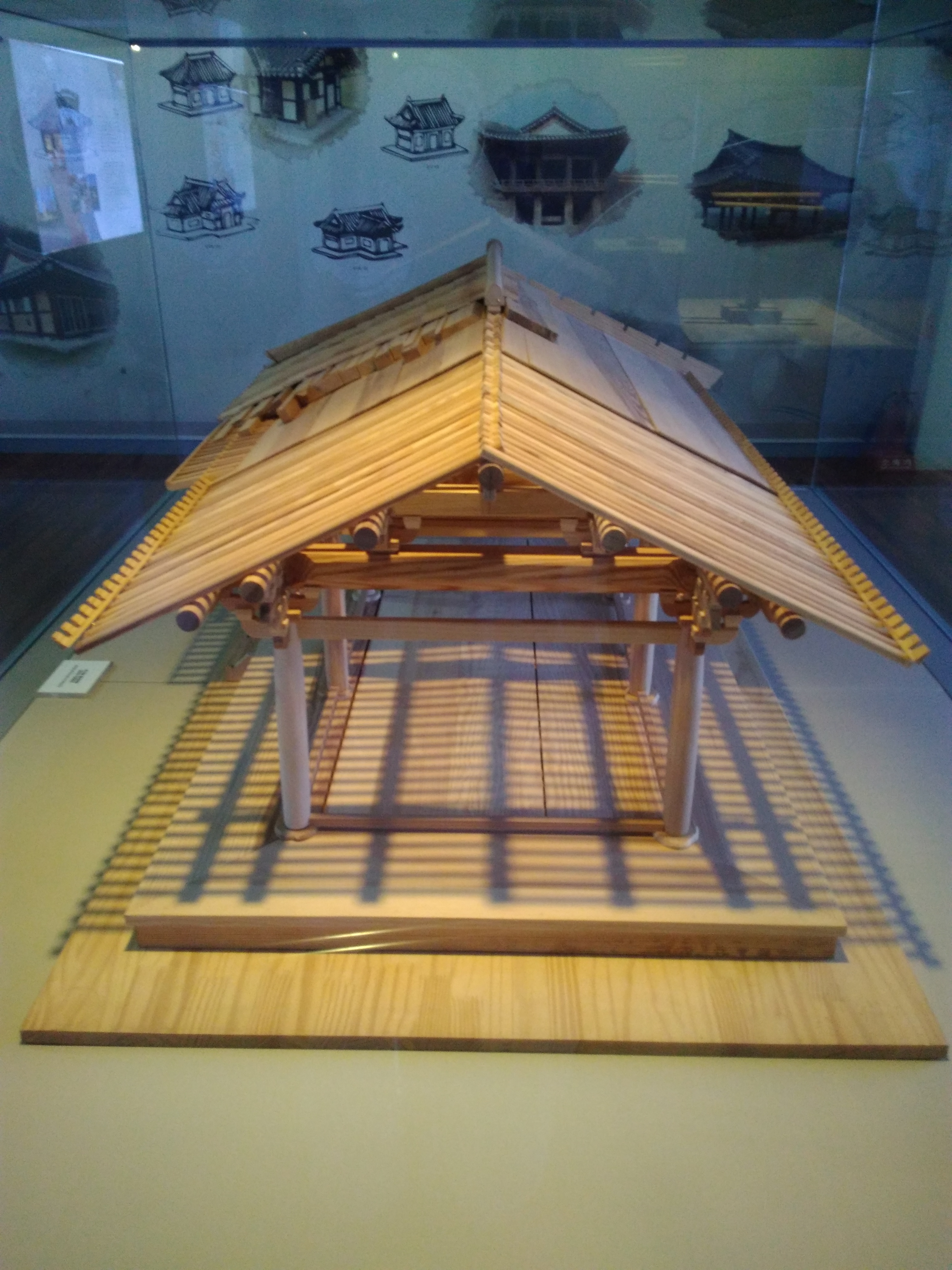 Model at the Buseoksa museum.